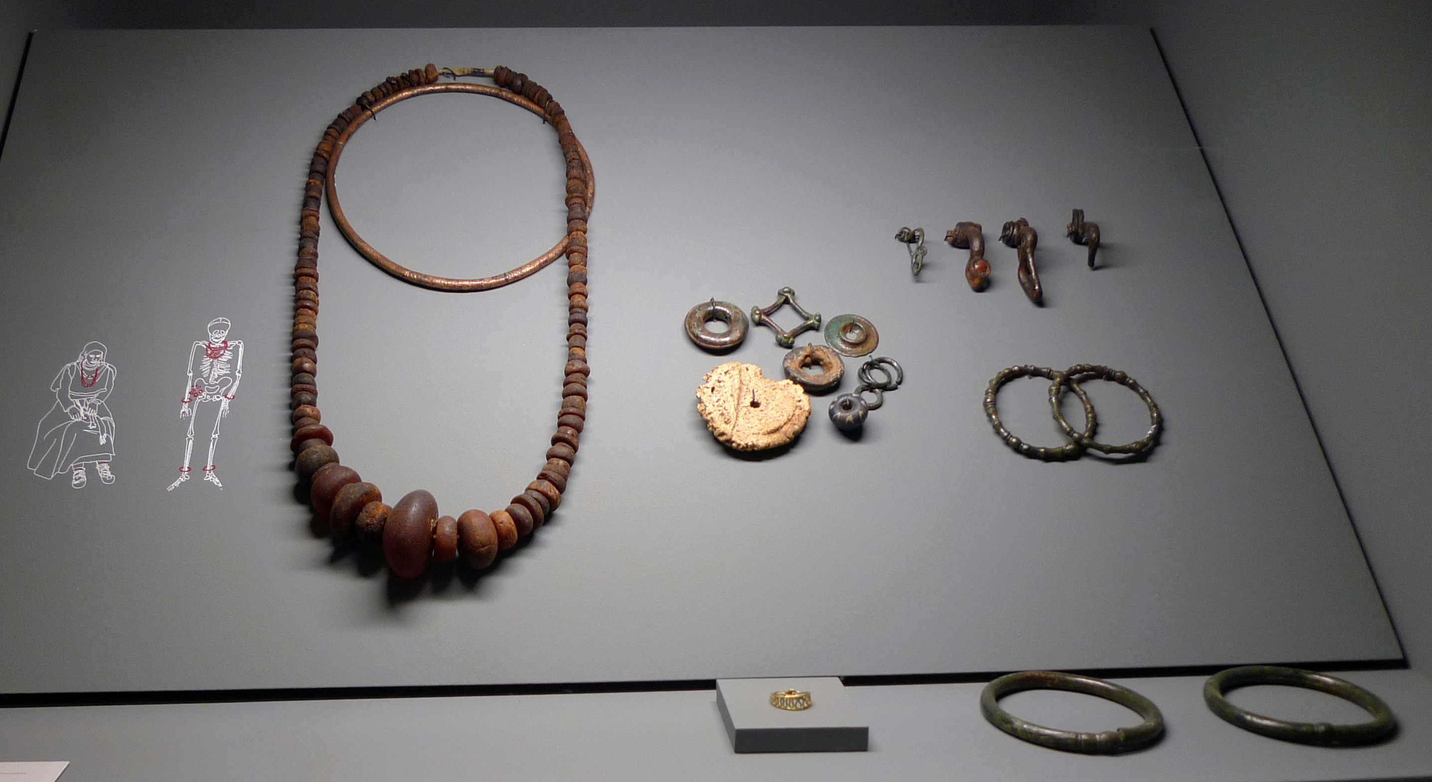 Jewellery from a young woman's grave, c. 400 BC. Amber necklace, amulets and golden ring. Grave no. 12, Celtic burial site, "Rain", Münsingen, Switzerland.